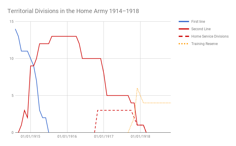 Territorial divisions deployed in the home army between 1914 and 1918. Over the winter of 1917/1918, territorial units in the divisions still allocated to the home army were replaced by Graduated battalions of the Training Reserve. The divisions remained part of the home army, but lost their territorial afilliation.